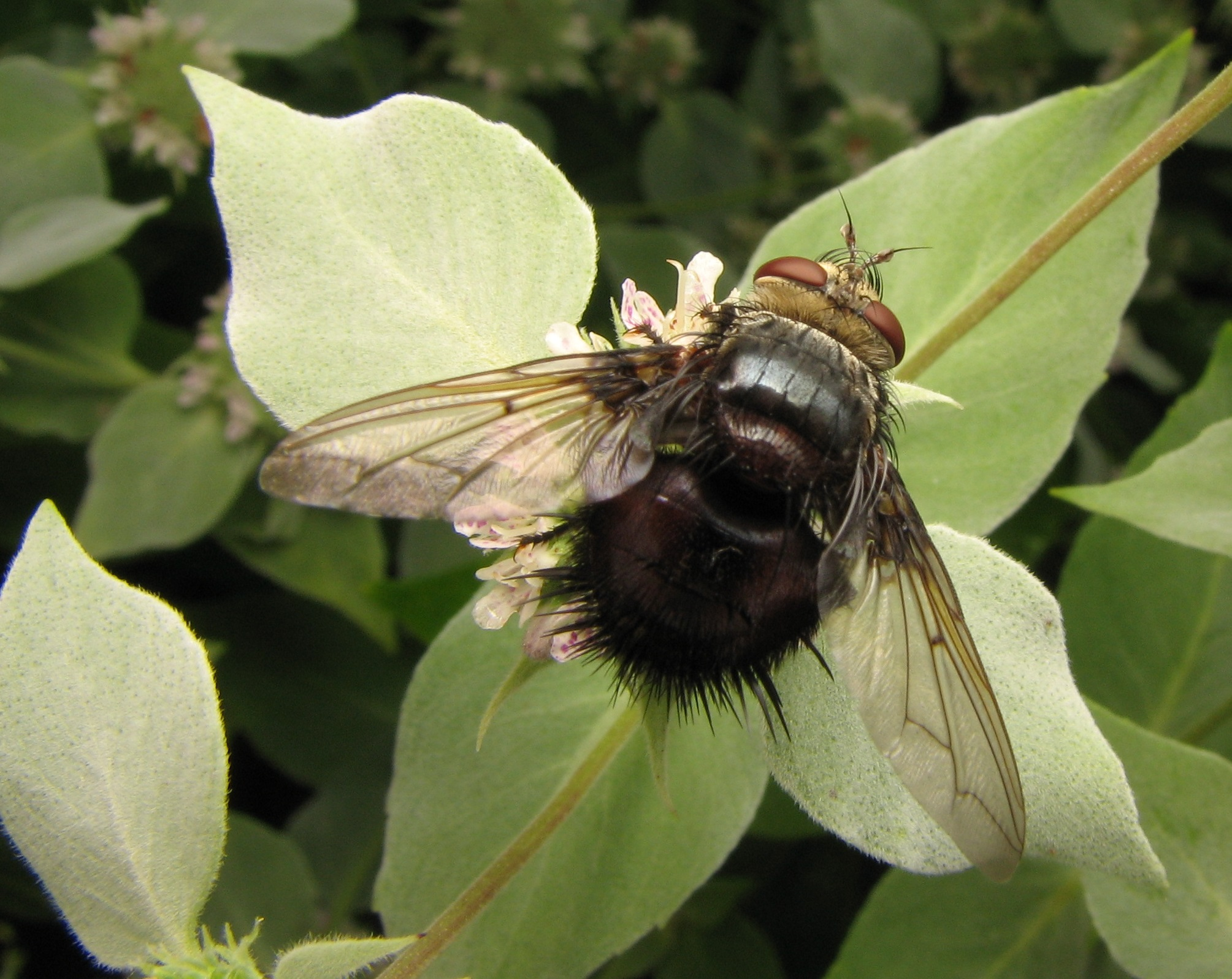 Tachinid fly, Juriniopsis, on mountain mint. Churchville nature Center, Bucks County, Pennsylvania, USA.